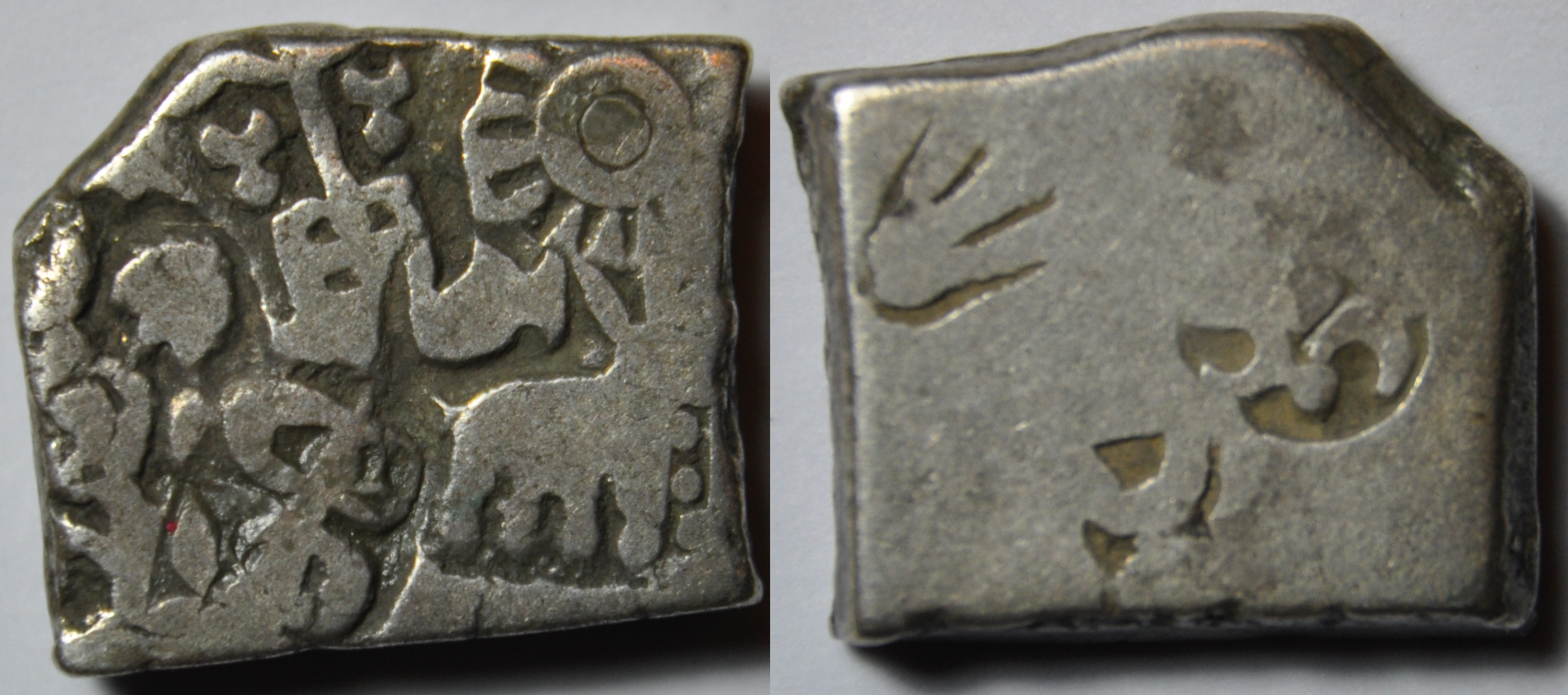 Une monnaie en argent de 1 karshapana de l’empire Maurya, période de Ashoka Maurya vers 272-232 avant J.C., atelier de Mathura… A/ Symboles dont un soleil et un animal R/ Symbole Dimensions : 13,92 x 11,75 mm Poids : 3,4 g. Référence : Mitchiner ACW 4229/34 Coins of rulers of India A silver coin of 1 karshapana of the empire Maurya, period of Ashoka Maurya towards 272-232 BC, workshop of Mathura. A / Symbols including a sun and an animal R / Symbol Dimensions: 13.92 x 11.75 mm Weight: 3.4 g. Reference: Mitchiner ACW 4229/34